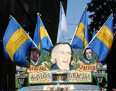 "Gracias Virrey" (Thanks Viceroy). Agradecimiento a Carlos Bianchi. La furgo xeneize (frag.) Edition from its original. Edition made by User:Roblespepe